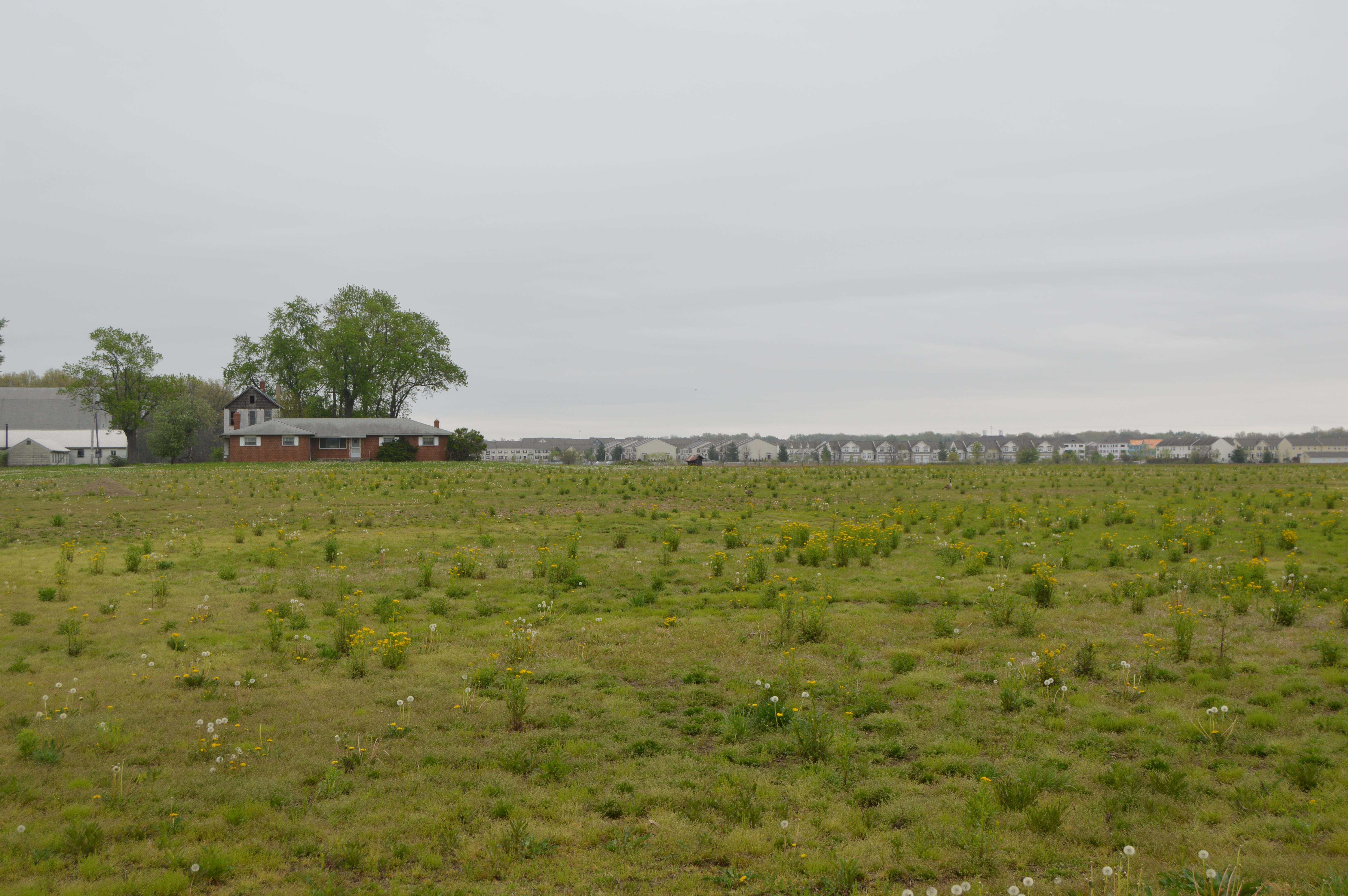 Fields on the eastern side of Schott Road, south of Smothers Road, in the northwestern corner of Plain Township, Franklin County, Ohio, United States. A brick farmstead, at left, long predates the suburban sprawl visible in the distance.